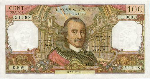 France 100 francs 1976